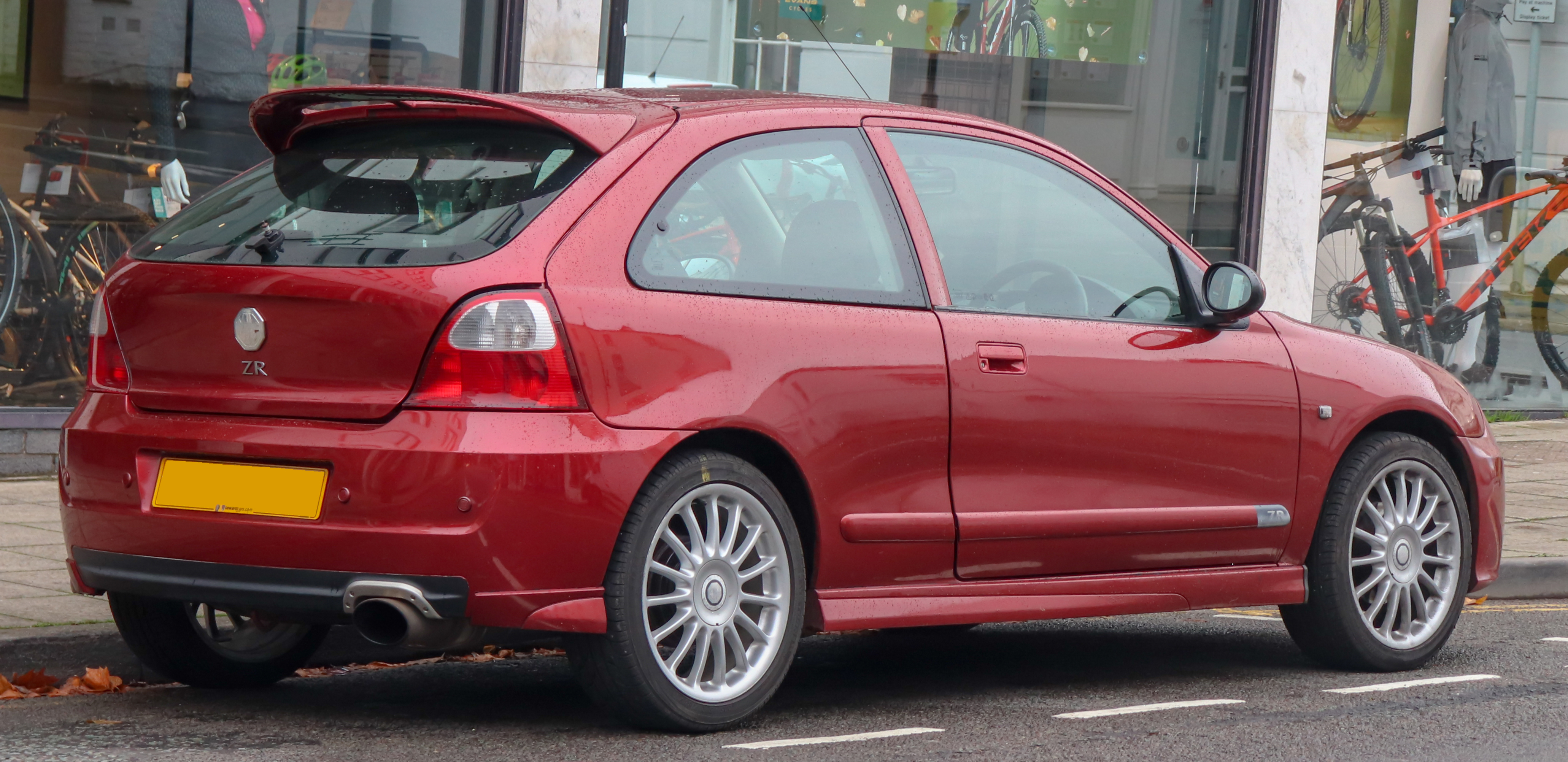 2005 MG ZR+ 105 1.4 Rear Taken in Leamington Spa